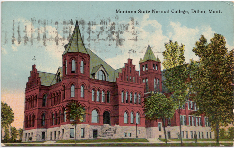 Color postcard of the Montana State Normal College (now University of Montana Western), Dillon, Montana. Published by Gray News Co., Salt Lake City, Utah, Made in U.S.A. C.T. Photochrom.